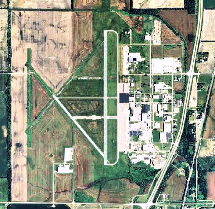 USGS digital orthophoto of Strother Field, an airport in Kansas